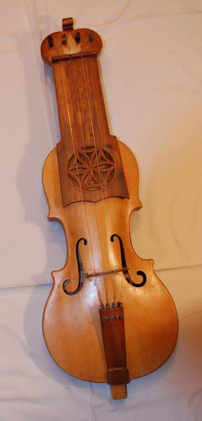 Polish instrument, suka biłgorajska, reconstructed by luthier Andrzej Kuczkowski